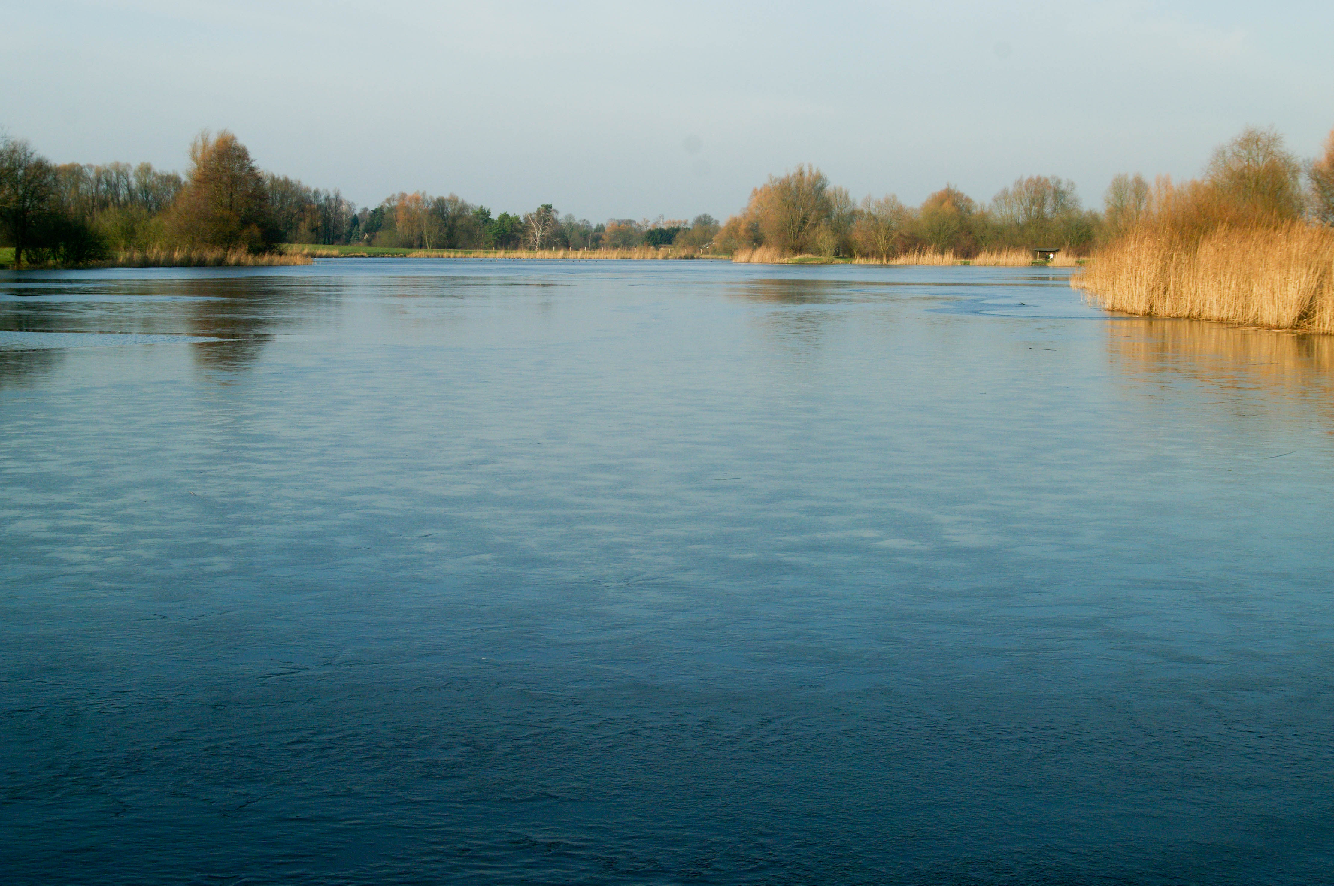 Vehlefanz, Brandenburg, Germany in winter